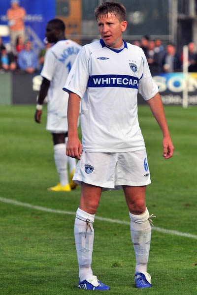 Photo of soccer player, Terry Dunfield.